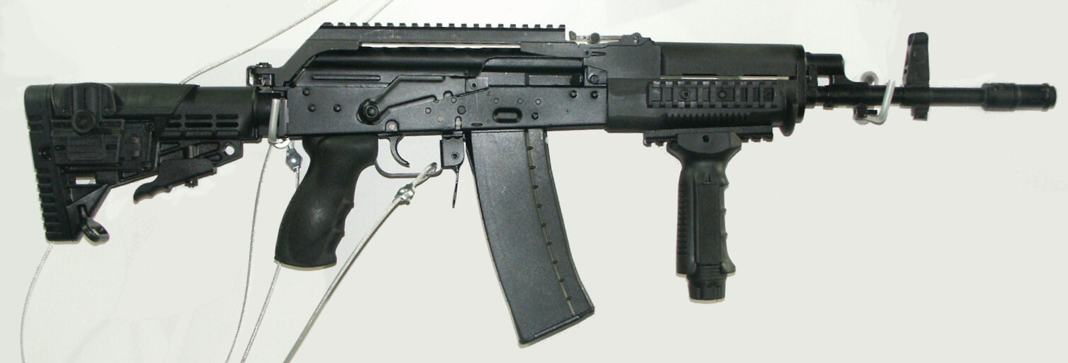 Polish rifle wz.96 Beryl Commando